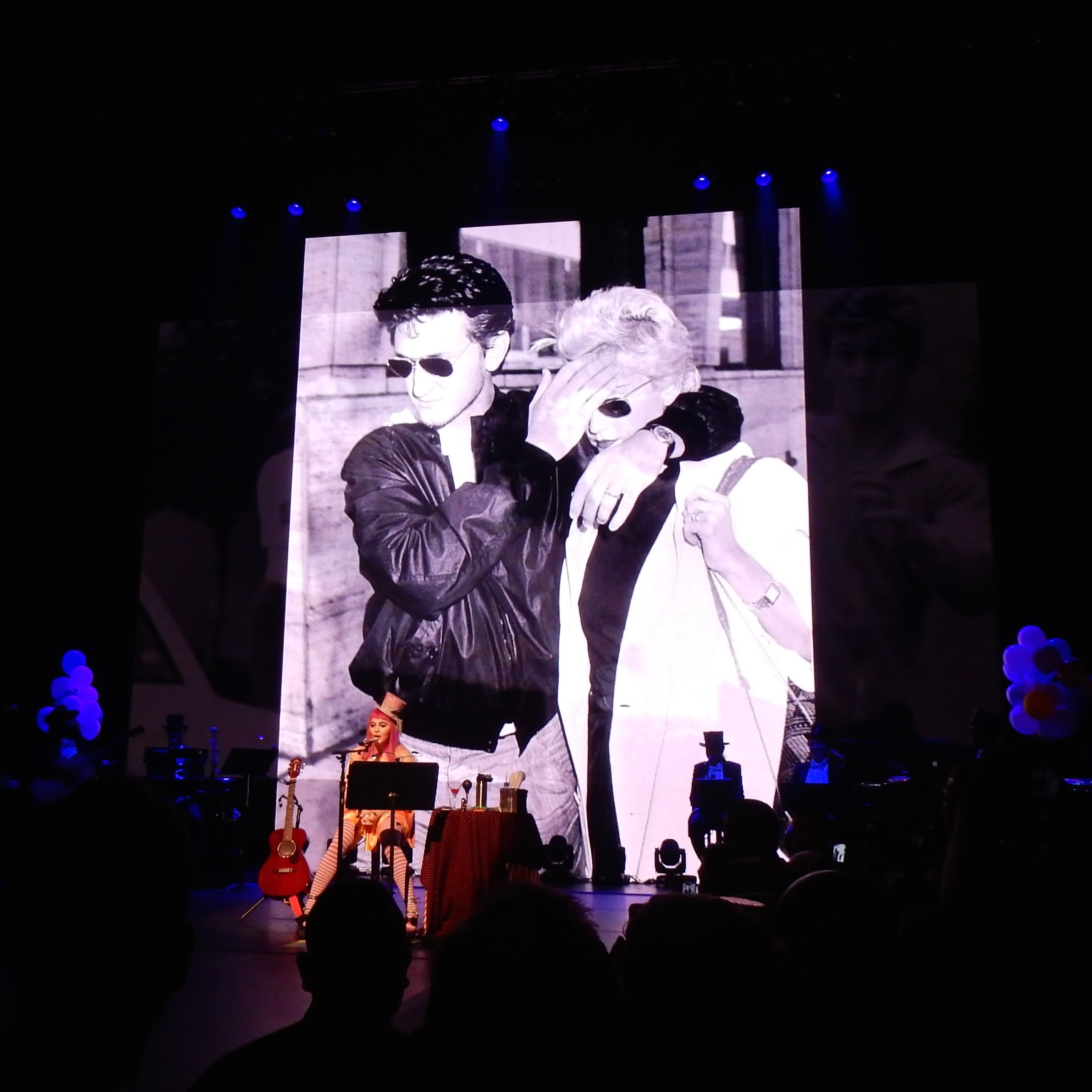 Special fan only show at The Forum, Melbourne, 10 March 2016